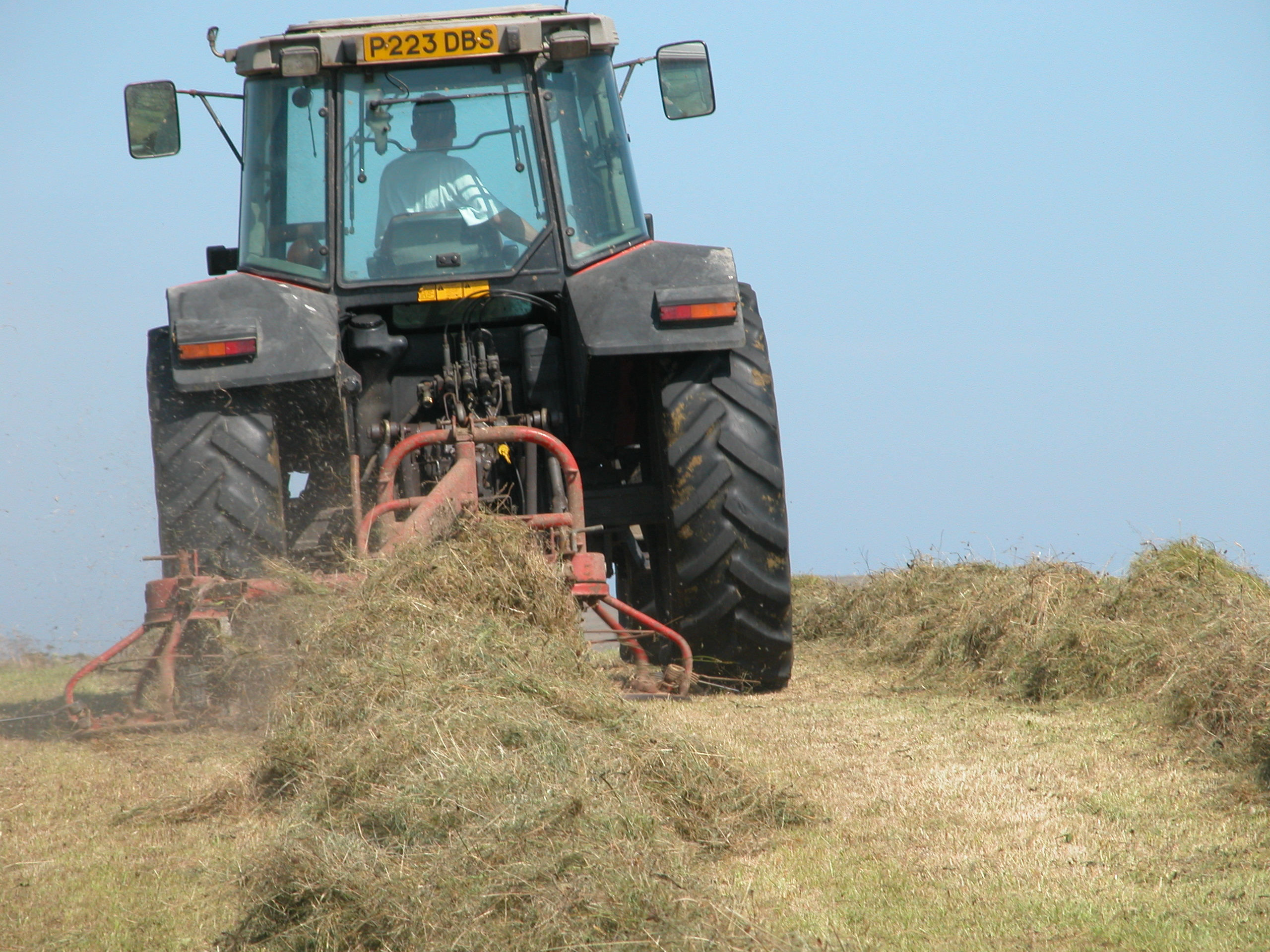 Rear view of a Massey Ferguson 6170 tractor, haymaking near Birsay, Orkneys, Scotland